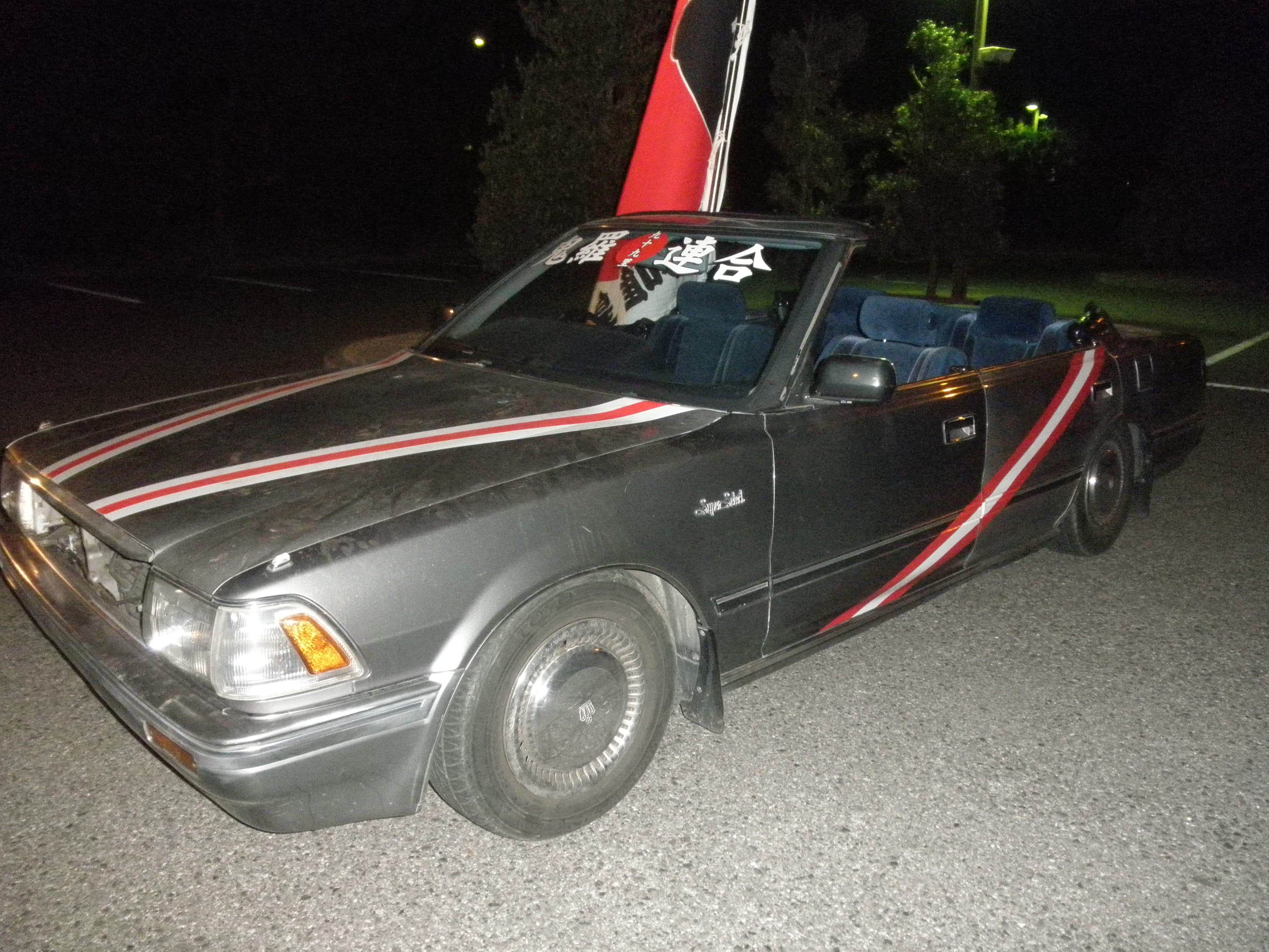 暴走族車両